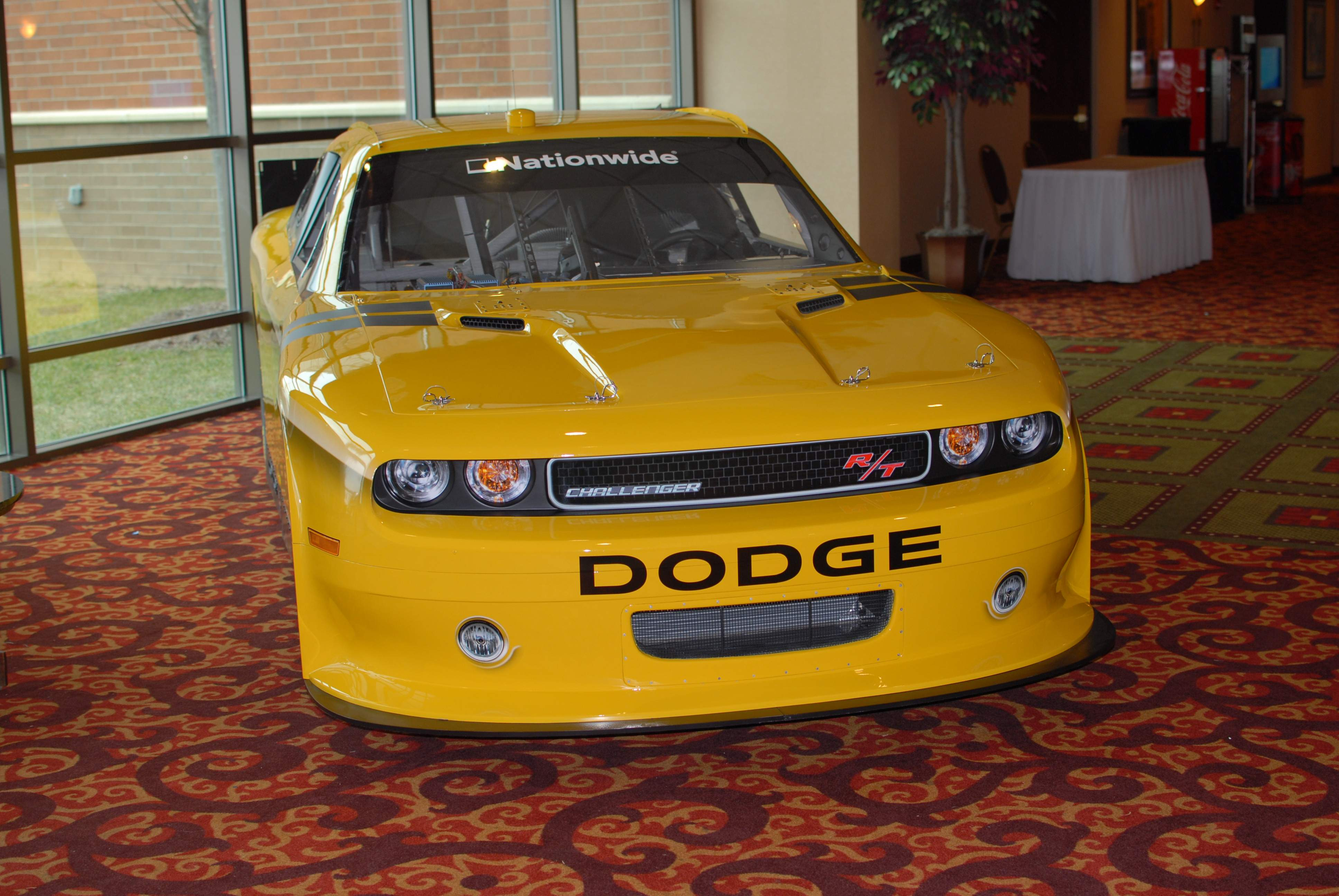 The 2010 NASCAR Nationwide Series new Car of Tomorrow (COT) at a National Motorsports Press Association event. Photo by Ted VanPelt creative commons license.